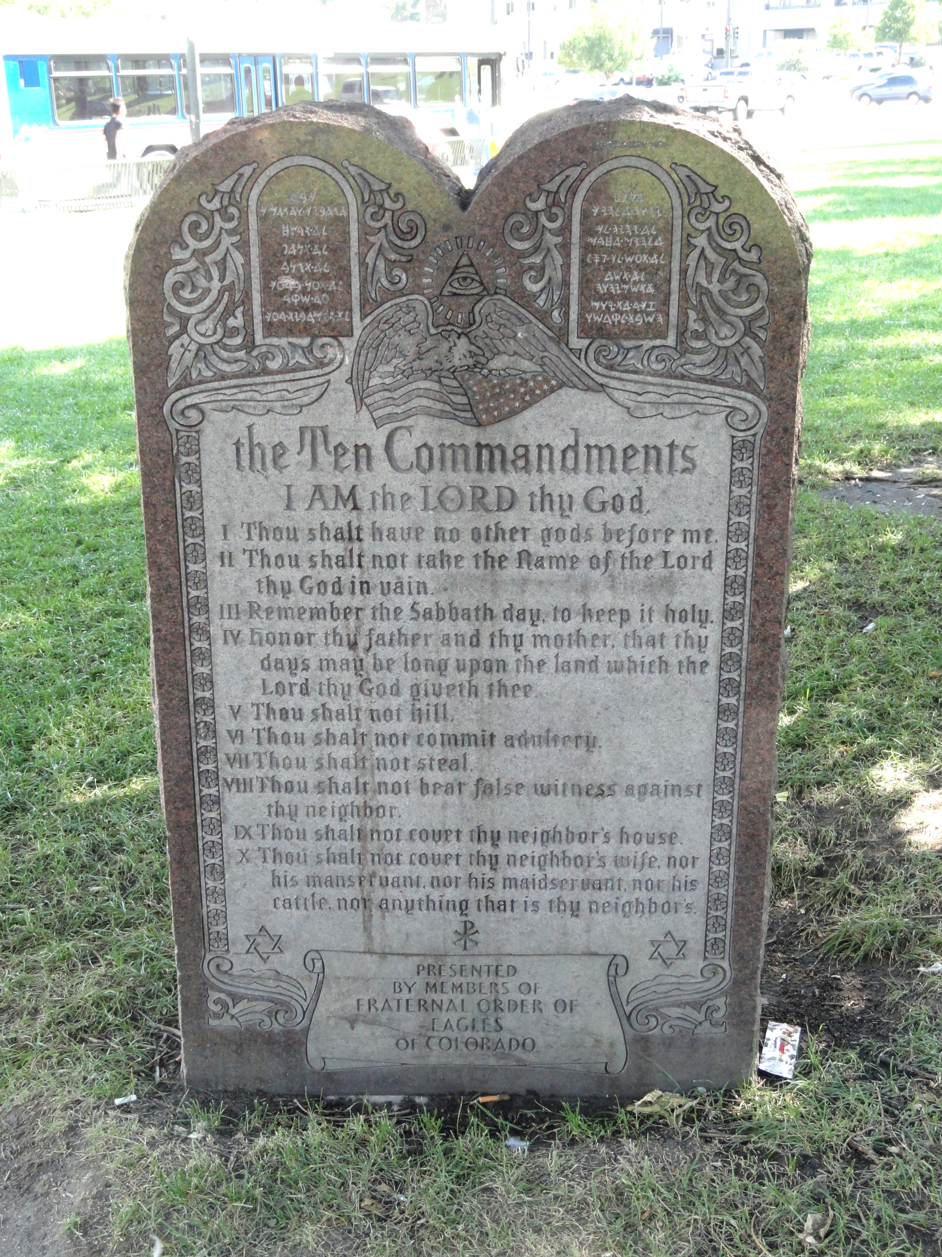 Tablet with ten commandments, Civic Center Park, Denver, Colorado, USA.